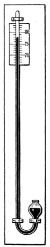 Quicksilver barometer